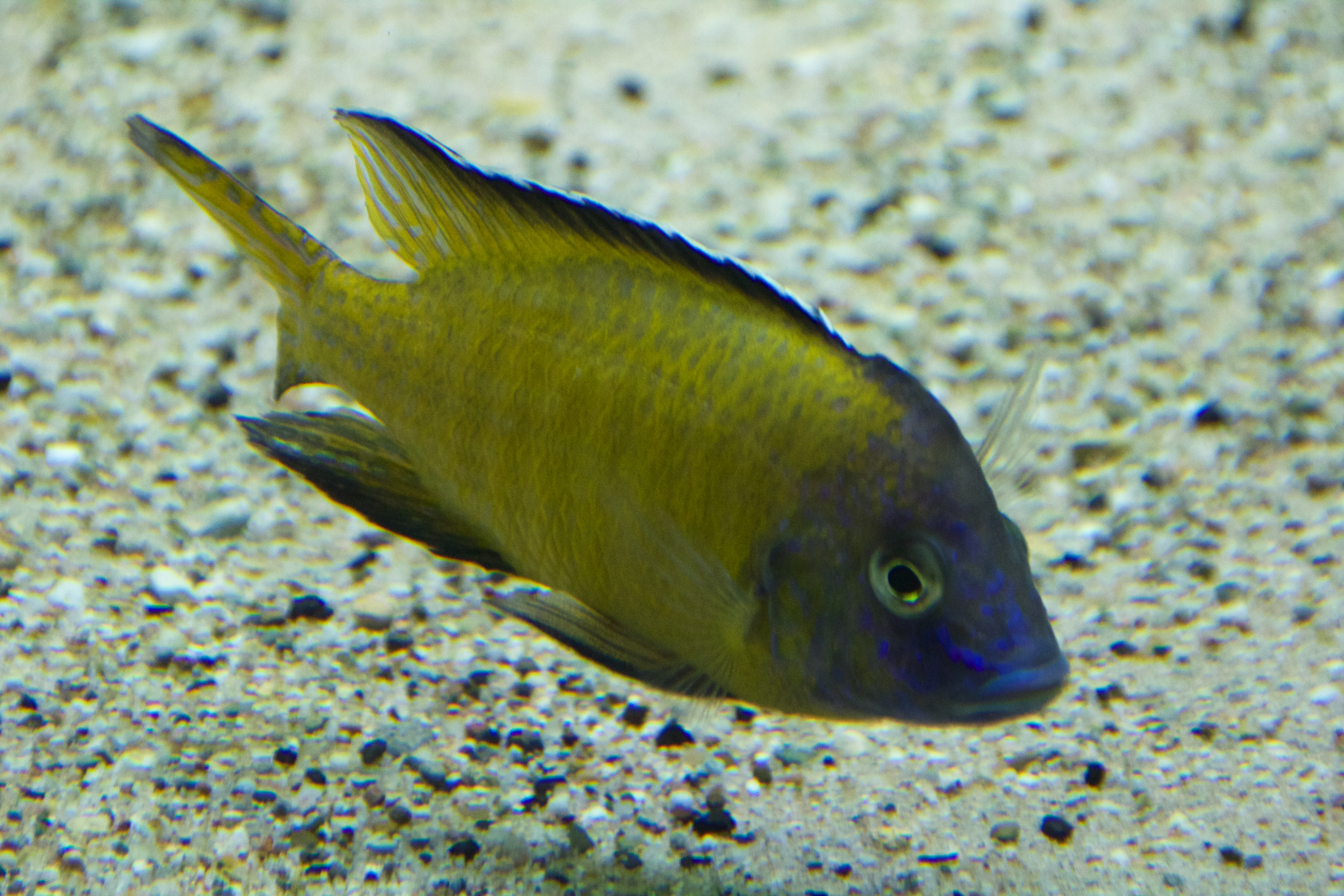 Giraffenmaulbruter. Aulonocara stuartgranti "Usisya" At Frankfurt Zoo.